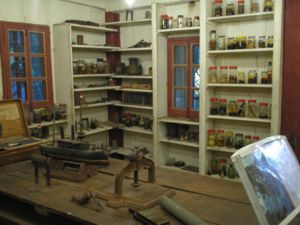 Moses Bertoni Laboratory, rebuilt thanks to an agreement with the Swiss Community